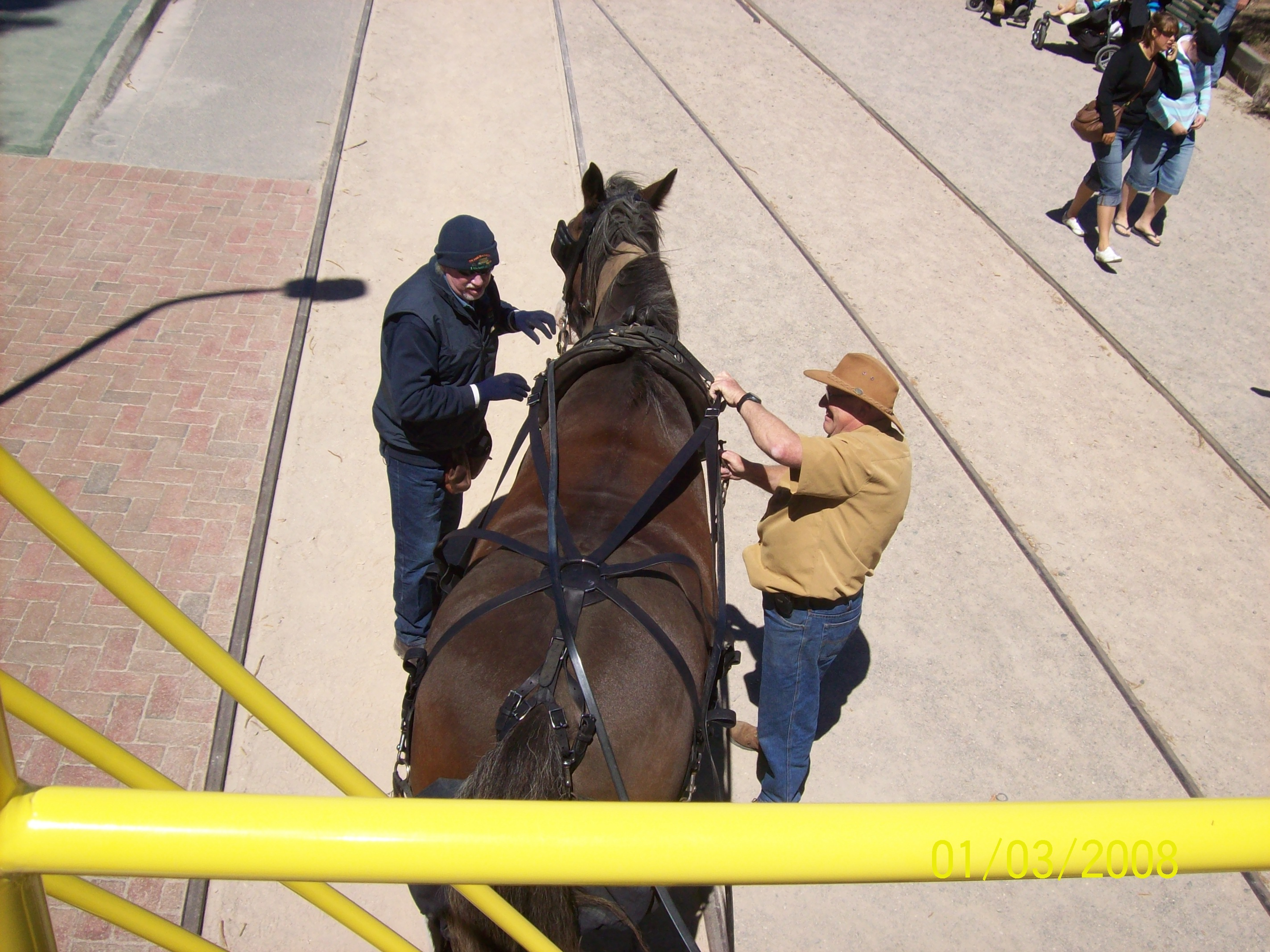 A horse is connecting with a tram, ready to commence her duty. She works for tramway in Victor Harbor, South Australia. For more information, see the Wikipedia article Victor Harbor Horse Drawn Tram.